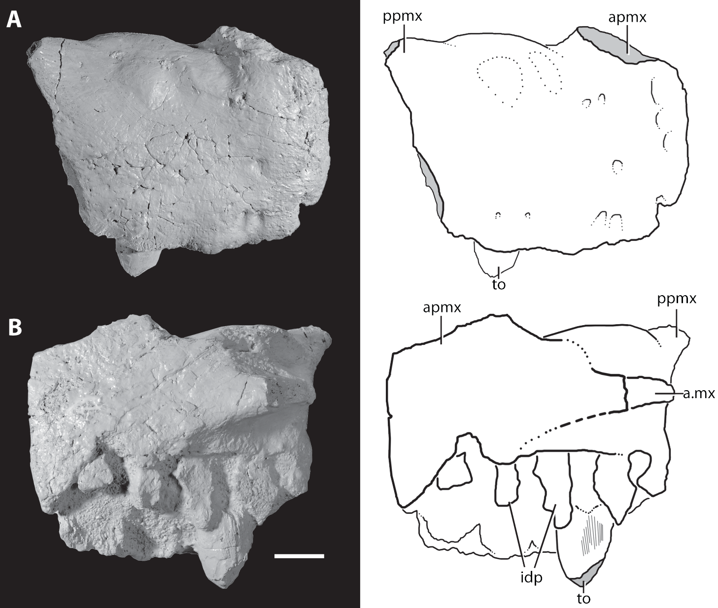 Right premaxilla of the holotype of Asperoris mnyama (NHMUK PV R36615). The premaxilla in lateral view (A) and interpretative drawing and medial view (B) and interpretative drawing. Light gray color indicates incomplete surfaces. Scale = 1 cm. Abbreviations: a., articulates with; apmx, anterior process of the premaxilla; idp, interdental plates; mx, maxilla; ppmx, posterior process of the premaxilla; to, tooth.